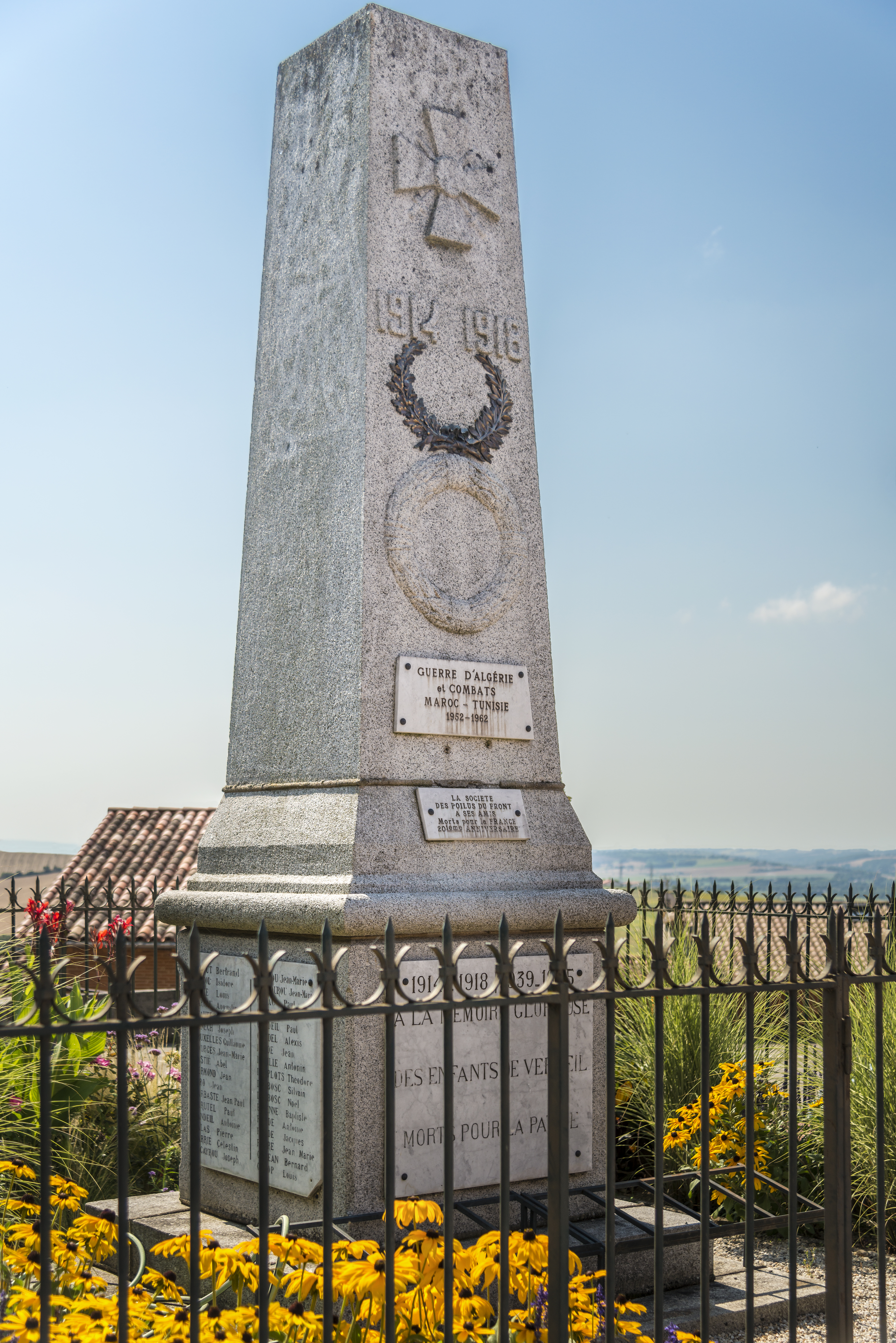 Verfeil, Haute-Garonne, France - the War memorial.